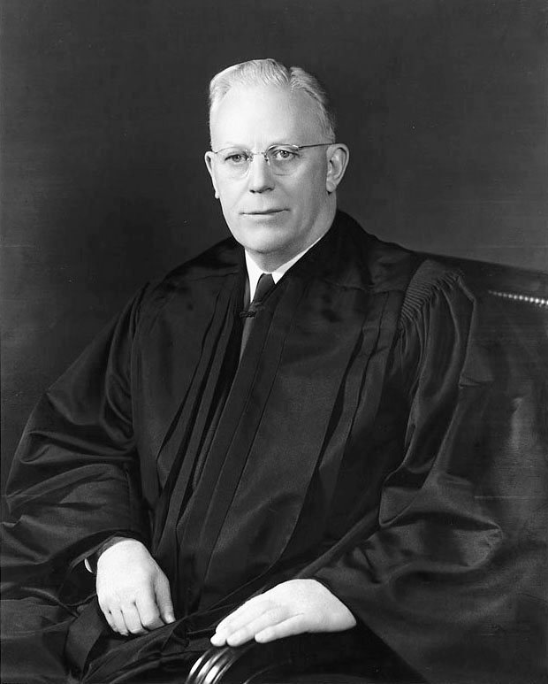 Undated photograph of Chief Justice of the United States Earl Warren. Photo by Harris & Ewing photography firm, whose works have all lapsed into the public domain.[1]